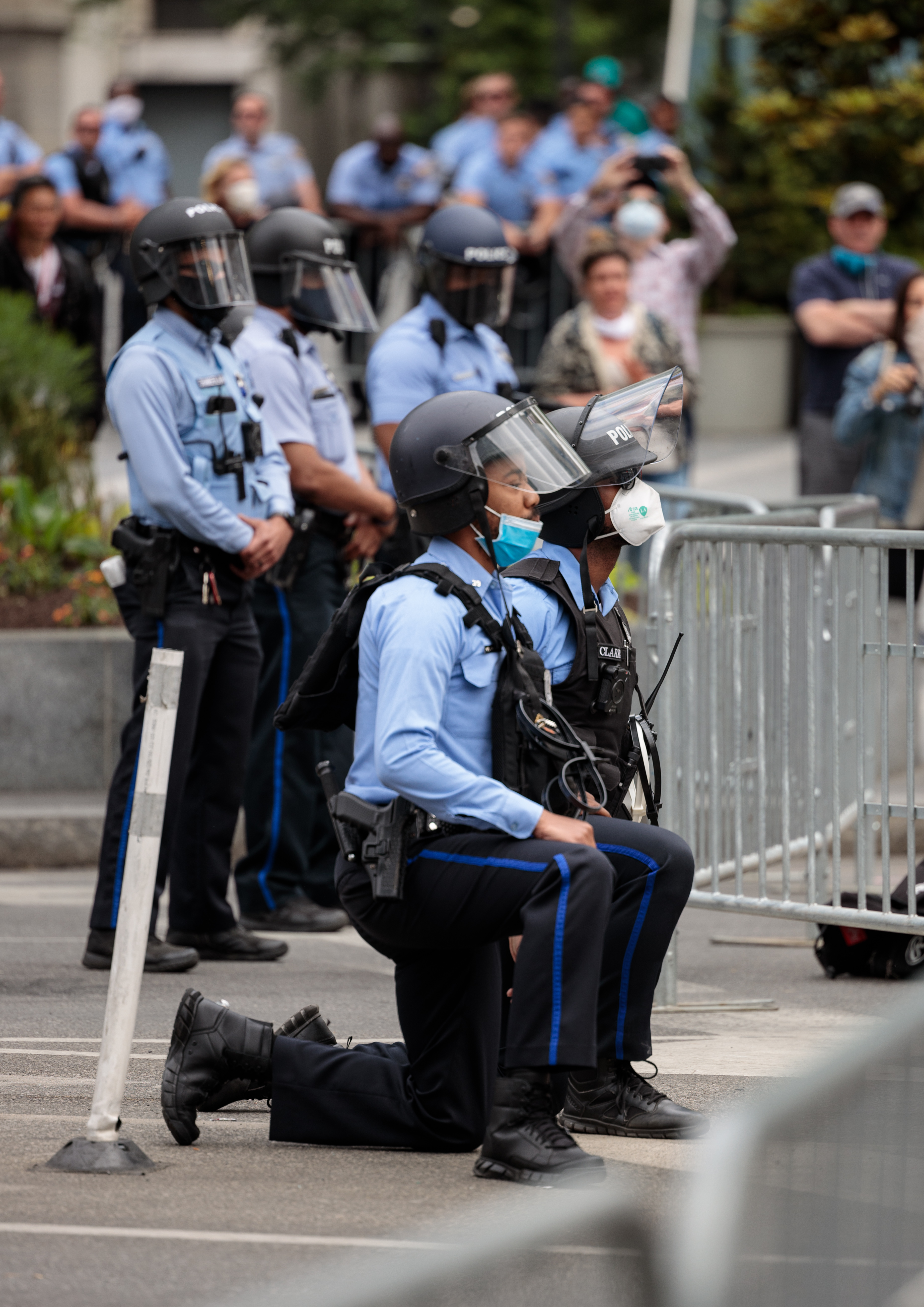 He was soon joined by a colleague.